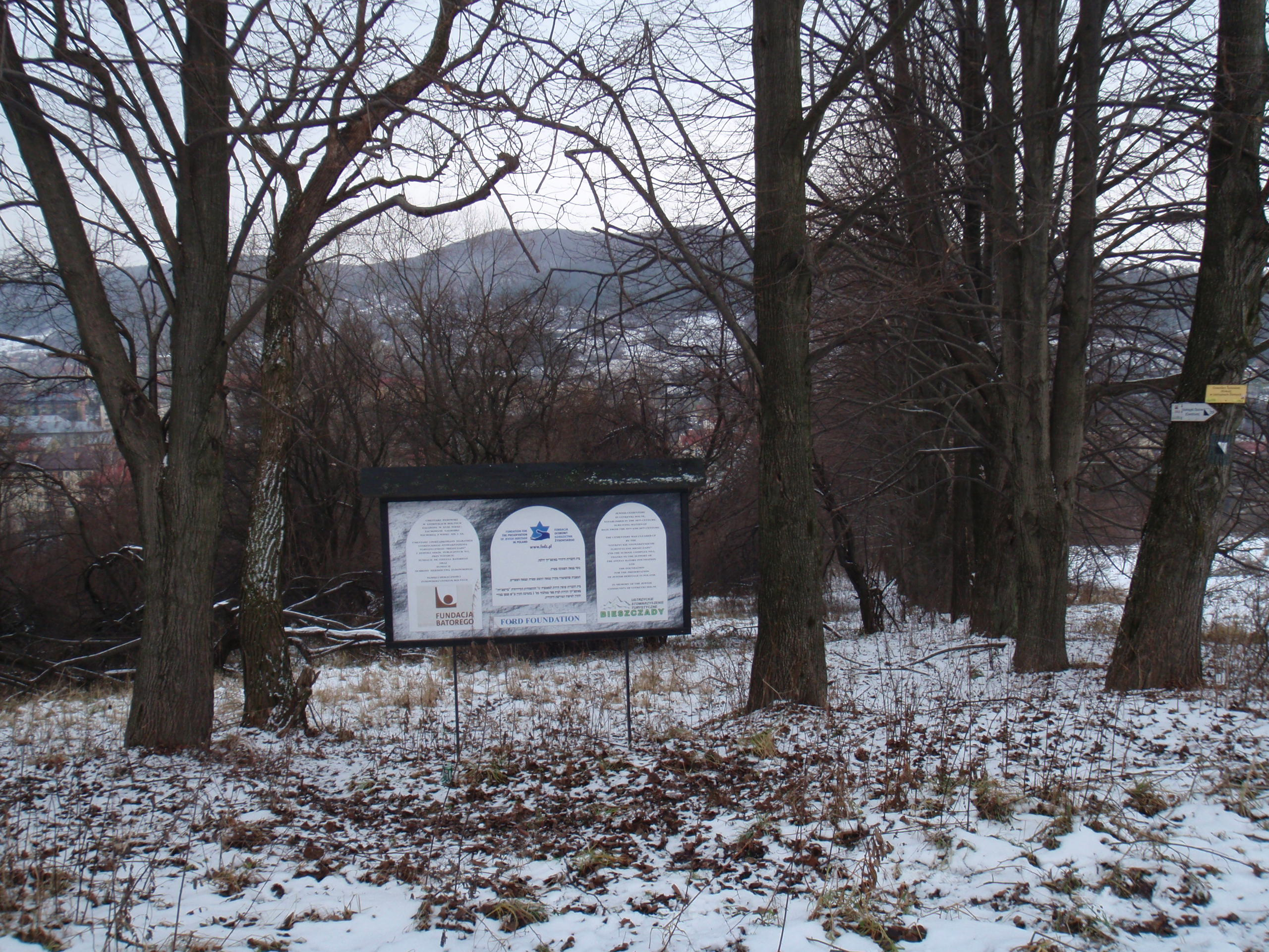 Jewish cemetery in Ustrzyki Dolne